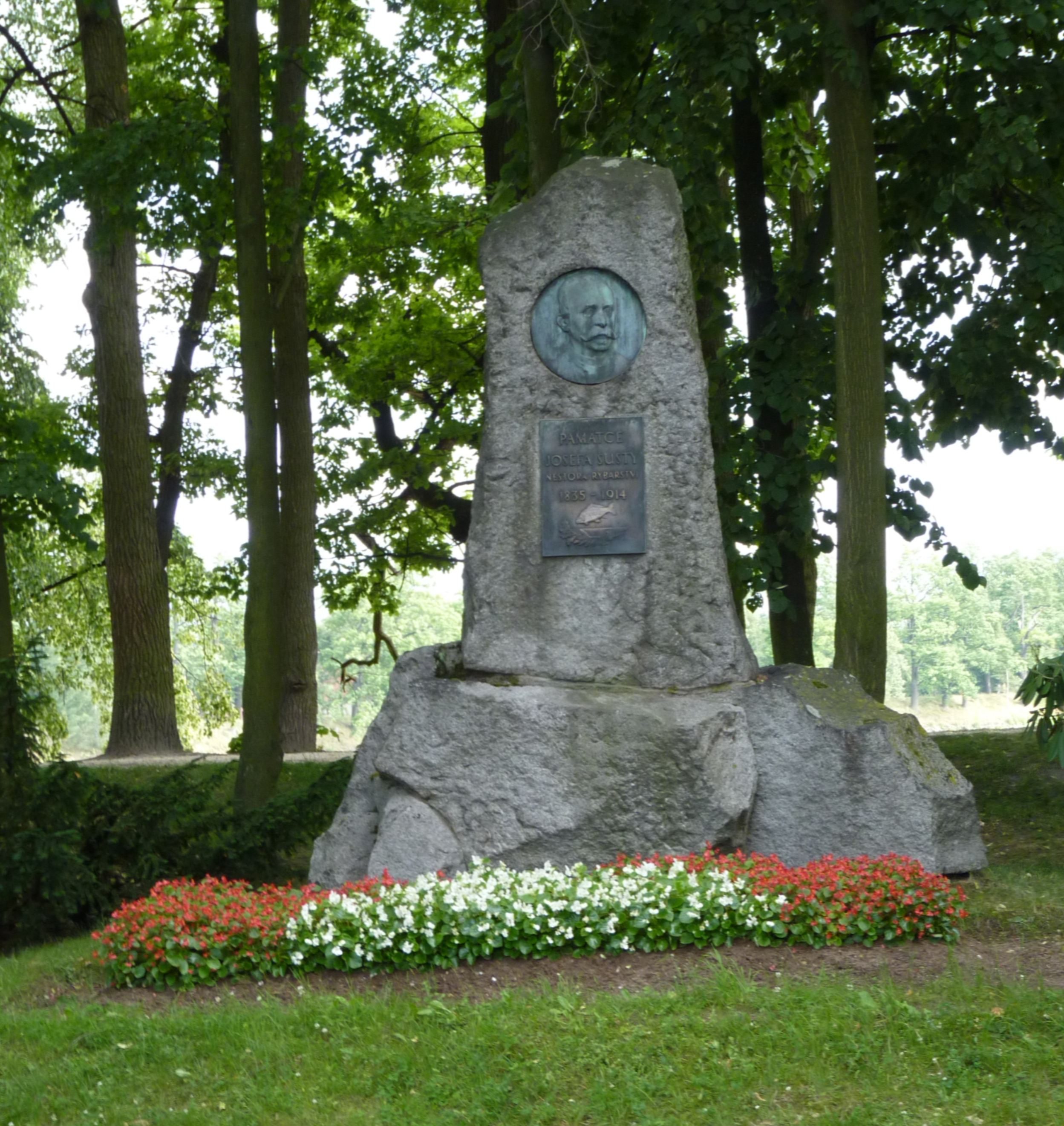 Třeboň. Jindřichův Hradec District, South Bohemian Region, Czech Republic